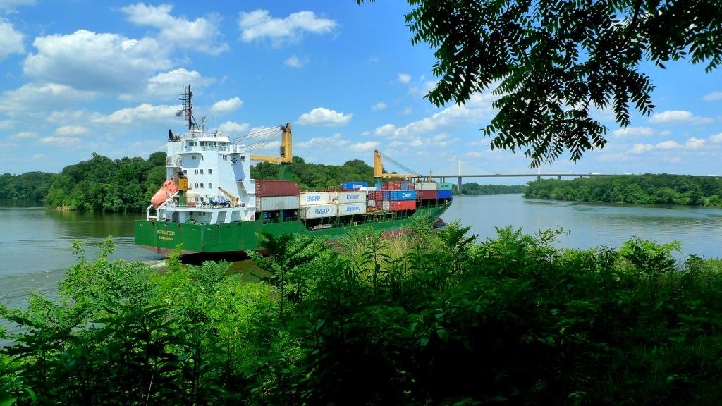 This file is a photograph by John Meckley taken at the Dutch Gap Canal on June 11, 2010 of the Feeder ship Reykjafoss (IMO 9202077) heading downstream from Richmond to Hampton Roads.